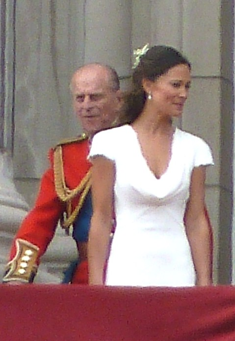 The British royal family on Buckingham Palace balcony after Prince William and Kate Middleton were married. Detail of the picture: Pippa Middleton and Prince Philip.